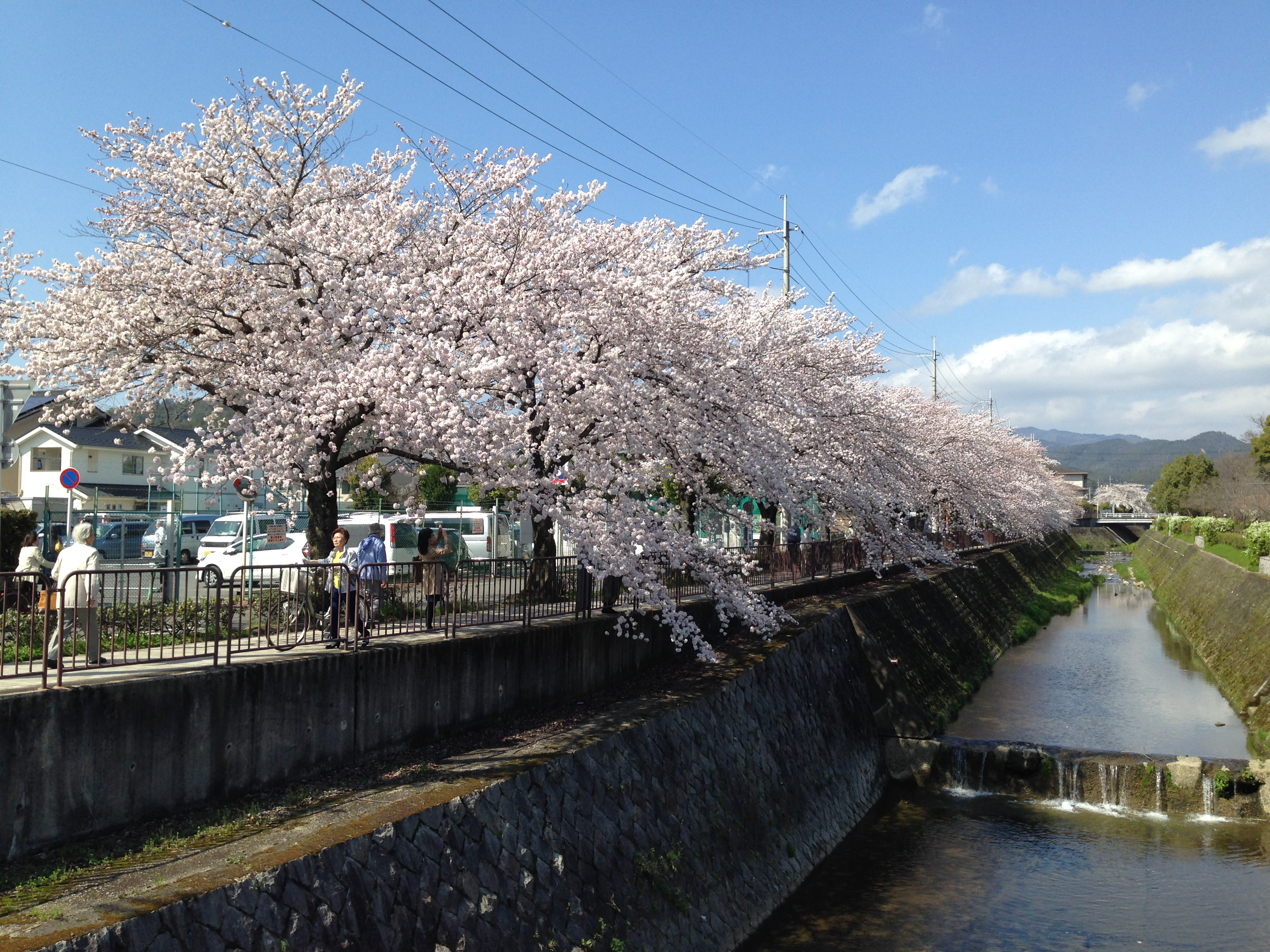 Cherry trees along Iwakura-gawa(岩倉川) River